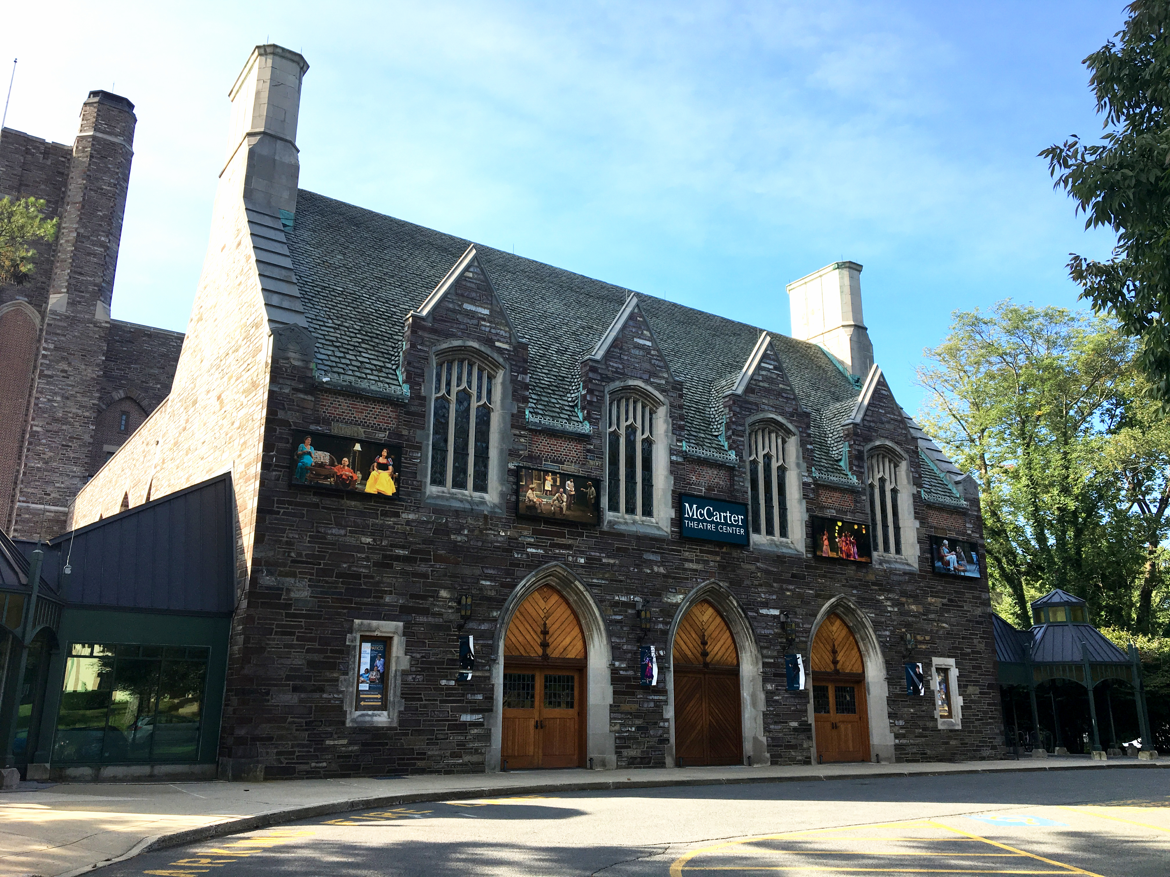 A photo of the front of McCarter Theatre Center in Princeton, New Jersey.